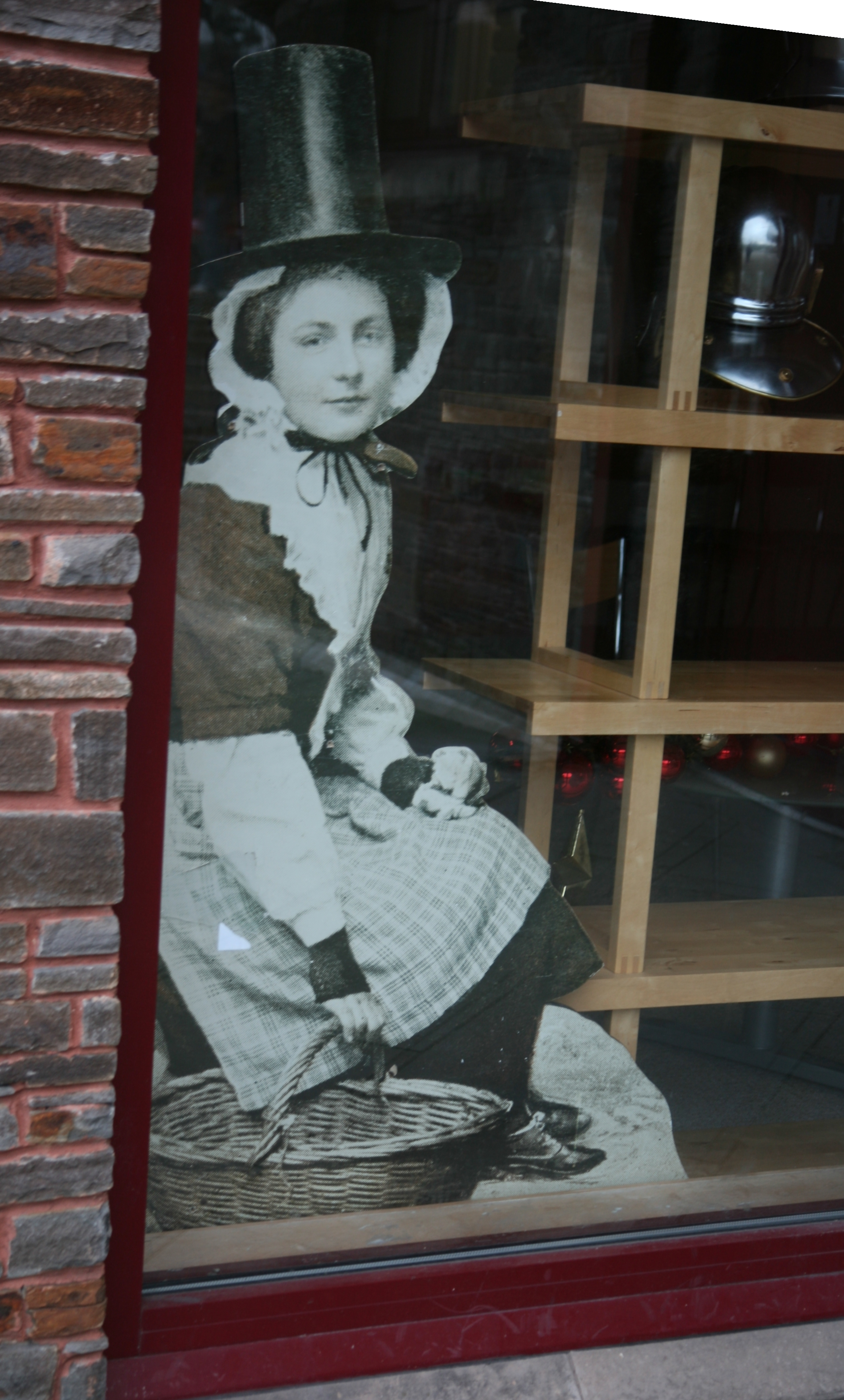 Welsh Woman wearing a Welsh Hat, photographed outside Caerphilly Tourist Information Centre